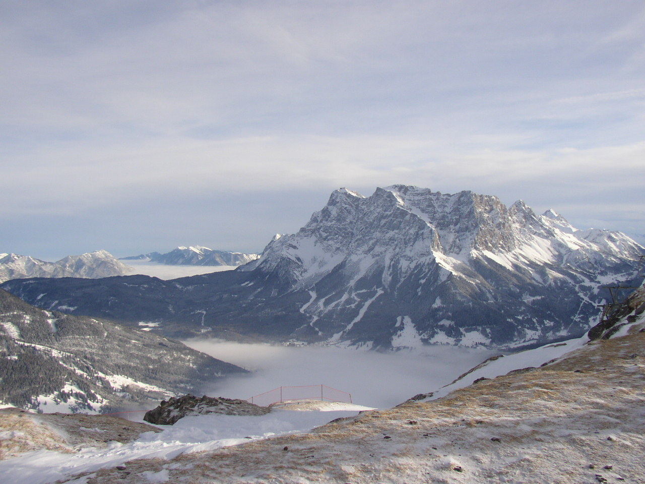 Zugspitze, view from Lermoos, Austria